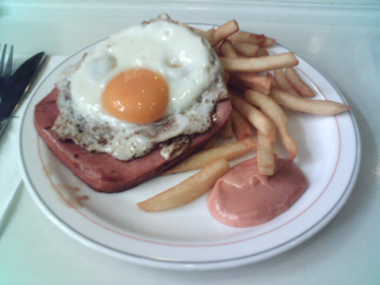 picture taken by myself ;-) in the Mensa of the Kunstuni in Linz-Urfahr, 2005. Picture shows "Leberkäse mit Spiegelei und Pommes Frites" Bon apetit! ;-)